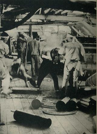 An inside view of Japanese cruiser Izumo. Izumo is the Imperial Japanese Navy's first Izumo-class armored cruiser.